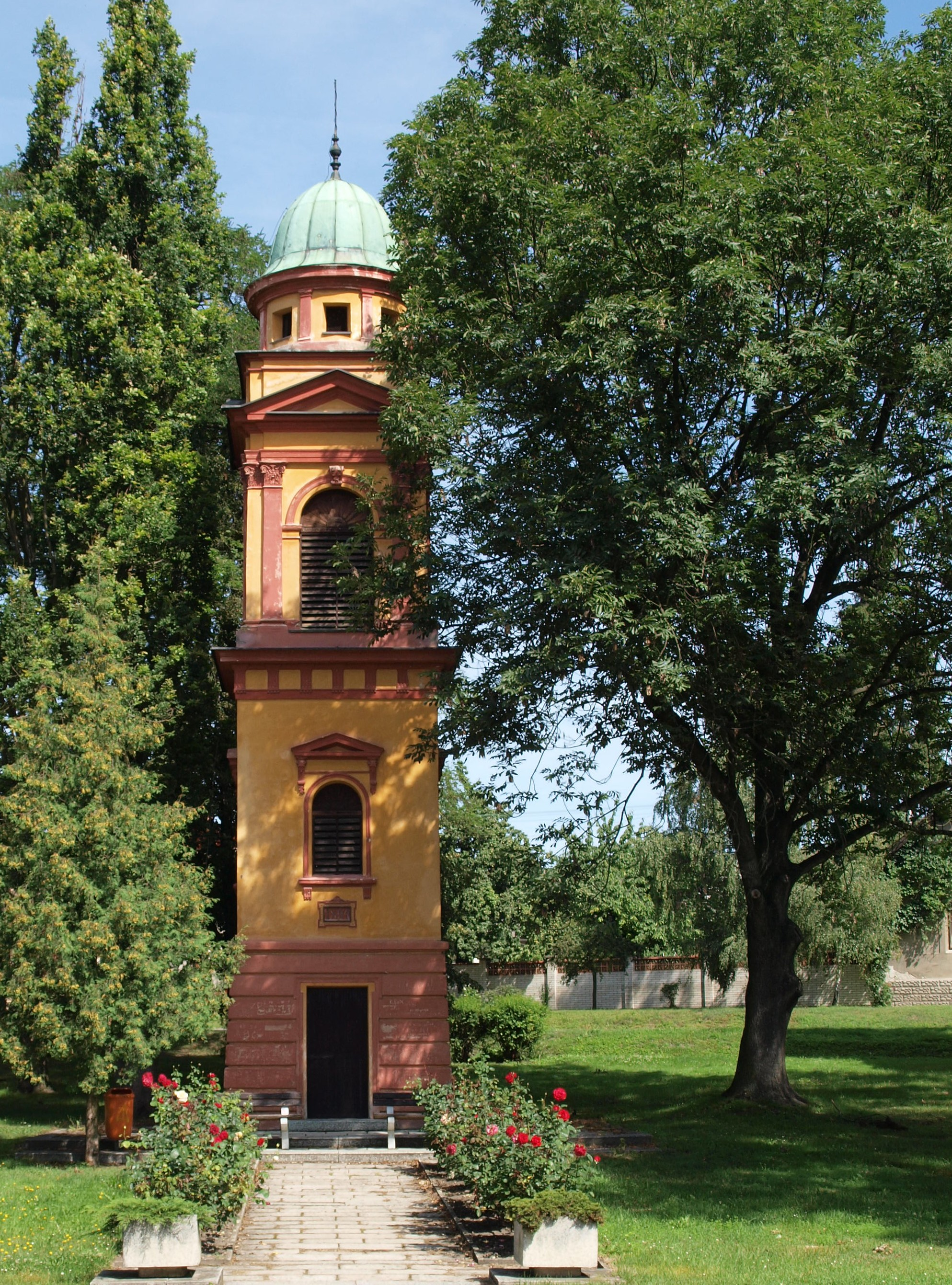 Campanile at village square, Bobnice, Nymburk District, Central Bohemian Region